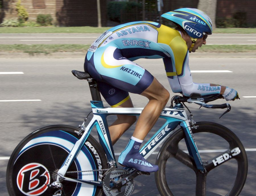 Andreas Klöden at the 2009 Eneco Tour prologue